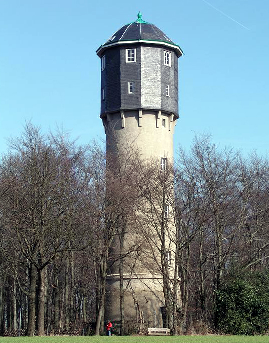 Lüttringhausen, North-Rhine/Westphalia (Germany): water-tower, photo 2005